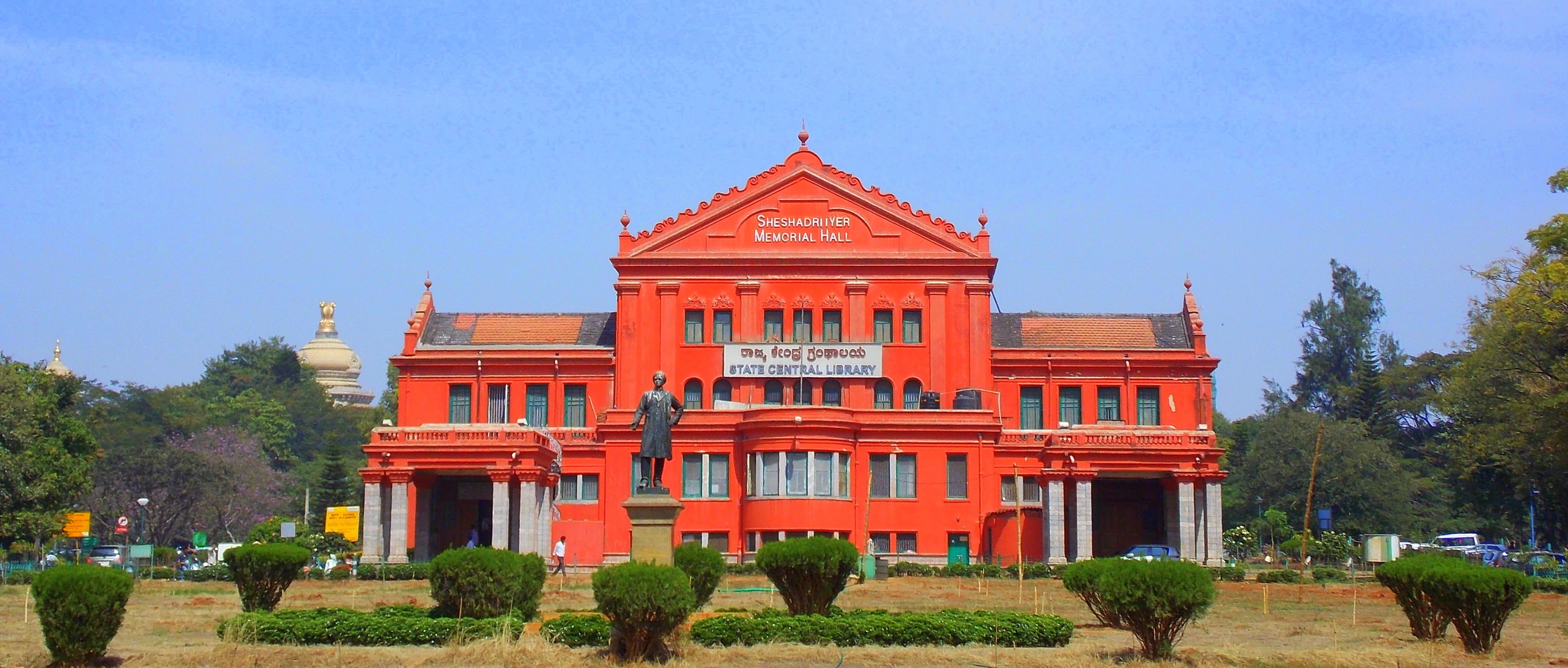 A outer view of Bangalore central library Cubbon Park